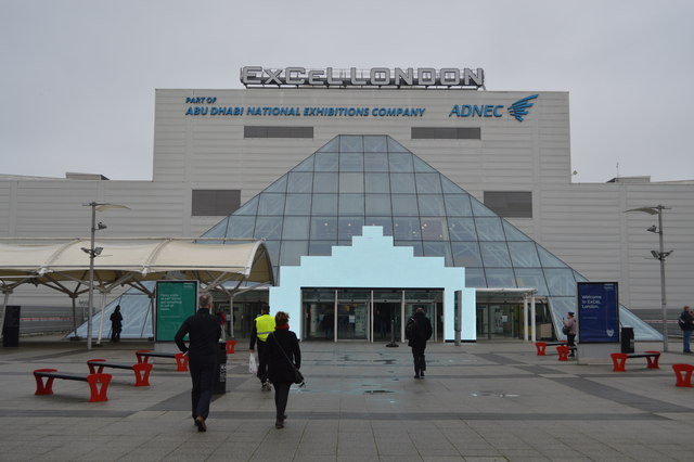 ExCeL London